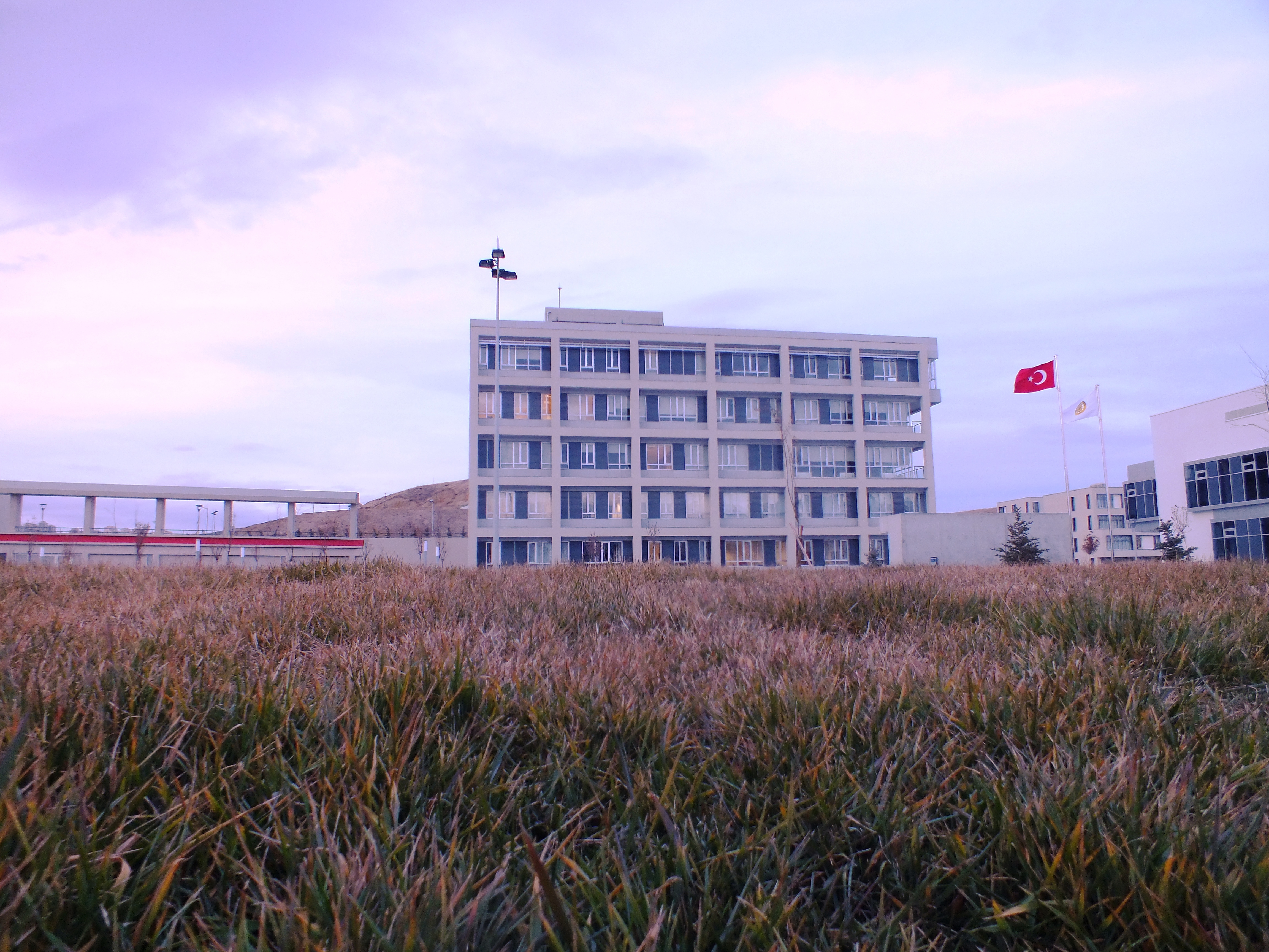 Rectorate of Çankaya UniversityTürkçe: Çankaya Üniversitesi Rektörlüğü'nden bir görünüm